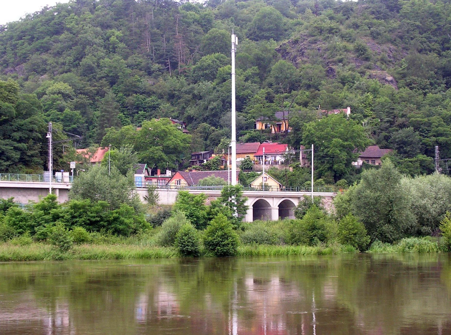 Úholičky-Podmoráň, Prague-West District, Central Bohemian Region, the Czech Republic. Train stop "Úholičky".